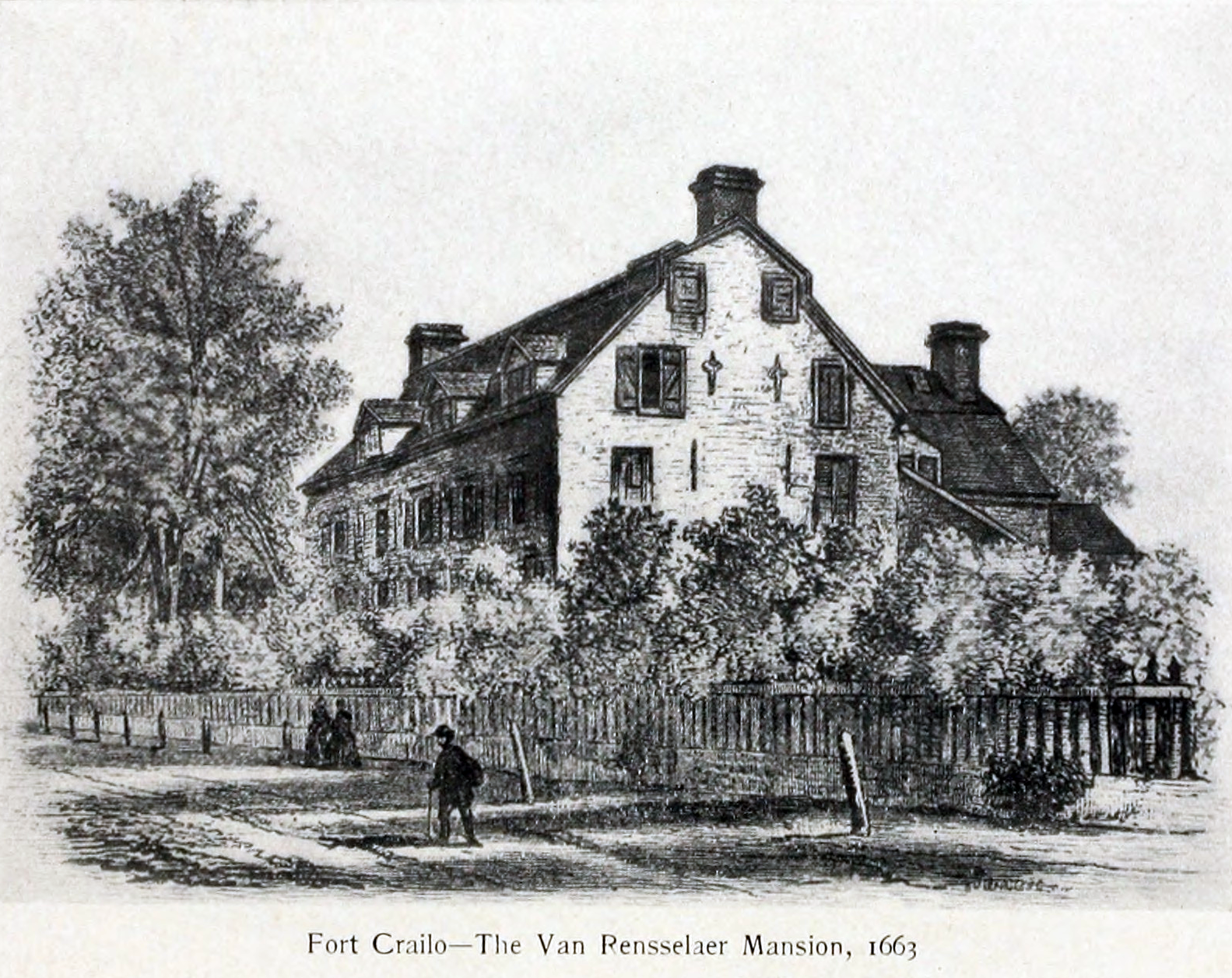 Fort Crailo, the manor house of the Manor of Rensselaerswyck, attributed to 1663